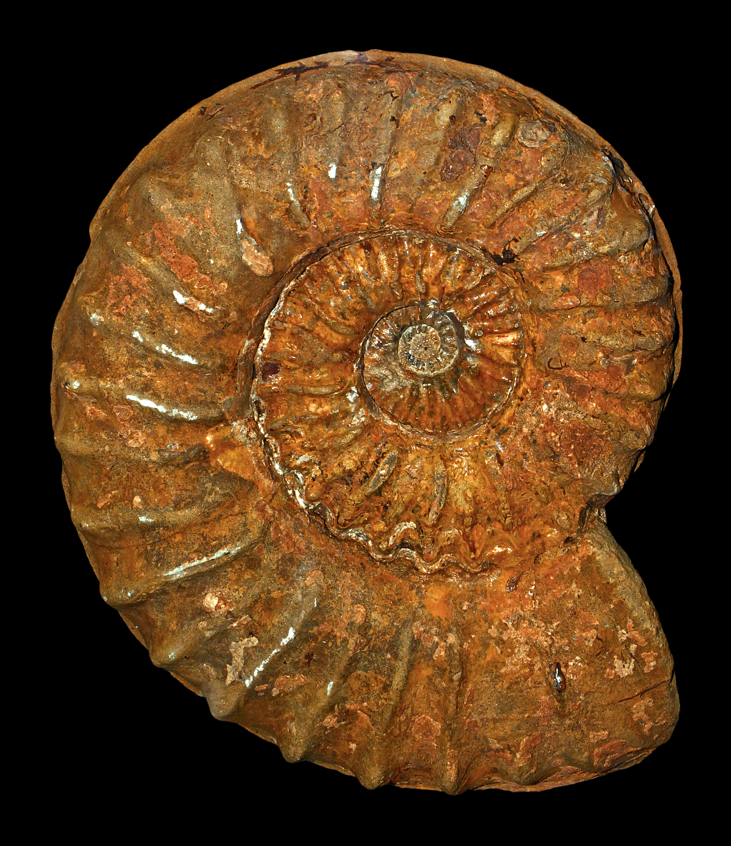 Diameter ca. 20 cm; Upper Albian, Cretaceous; Ndumu, South Africa; Museum für Naturkunde Berlin.